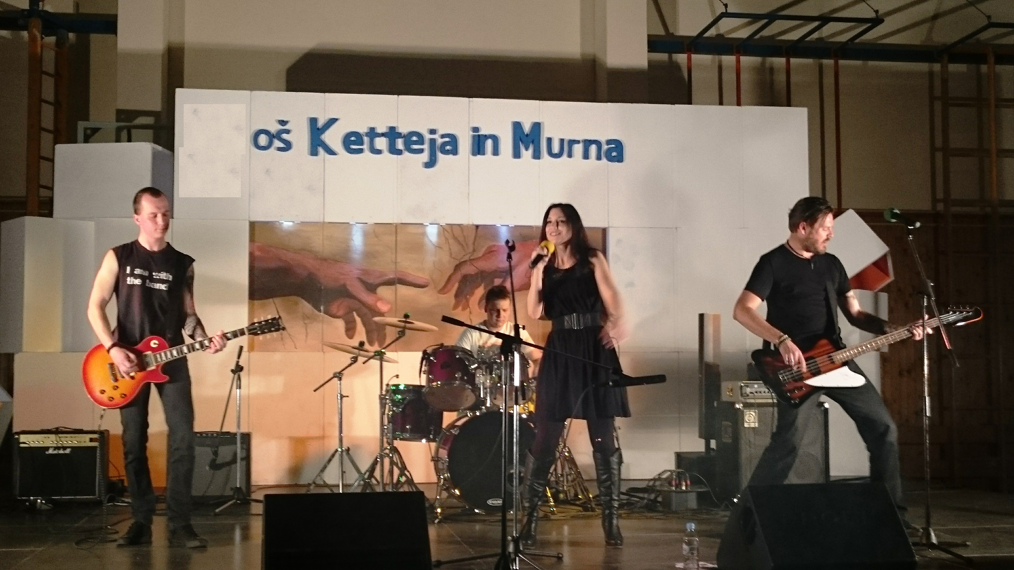 Billysi band, Kodeljevo 2015